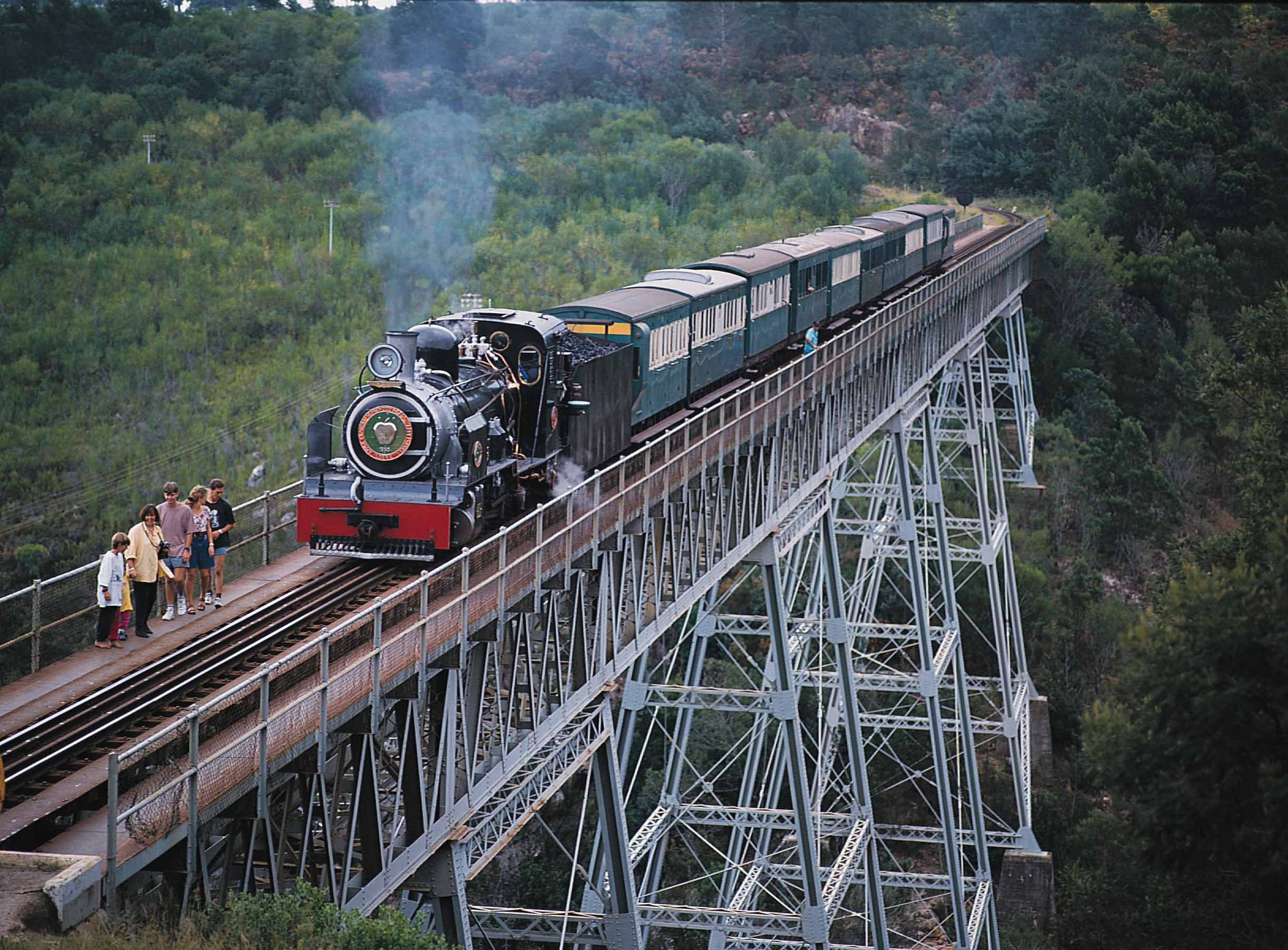 A popular Eastern Cape activity is the Apple Express steam train trip from Port Elizabeth to Thornhill, where you can take in scenic views from the highest narrow-gauge bridge in the world. Vue de l'Eastern Cape en Afrique du Sud.